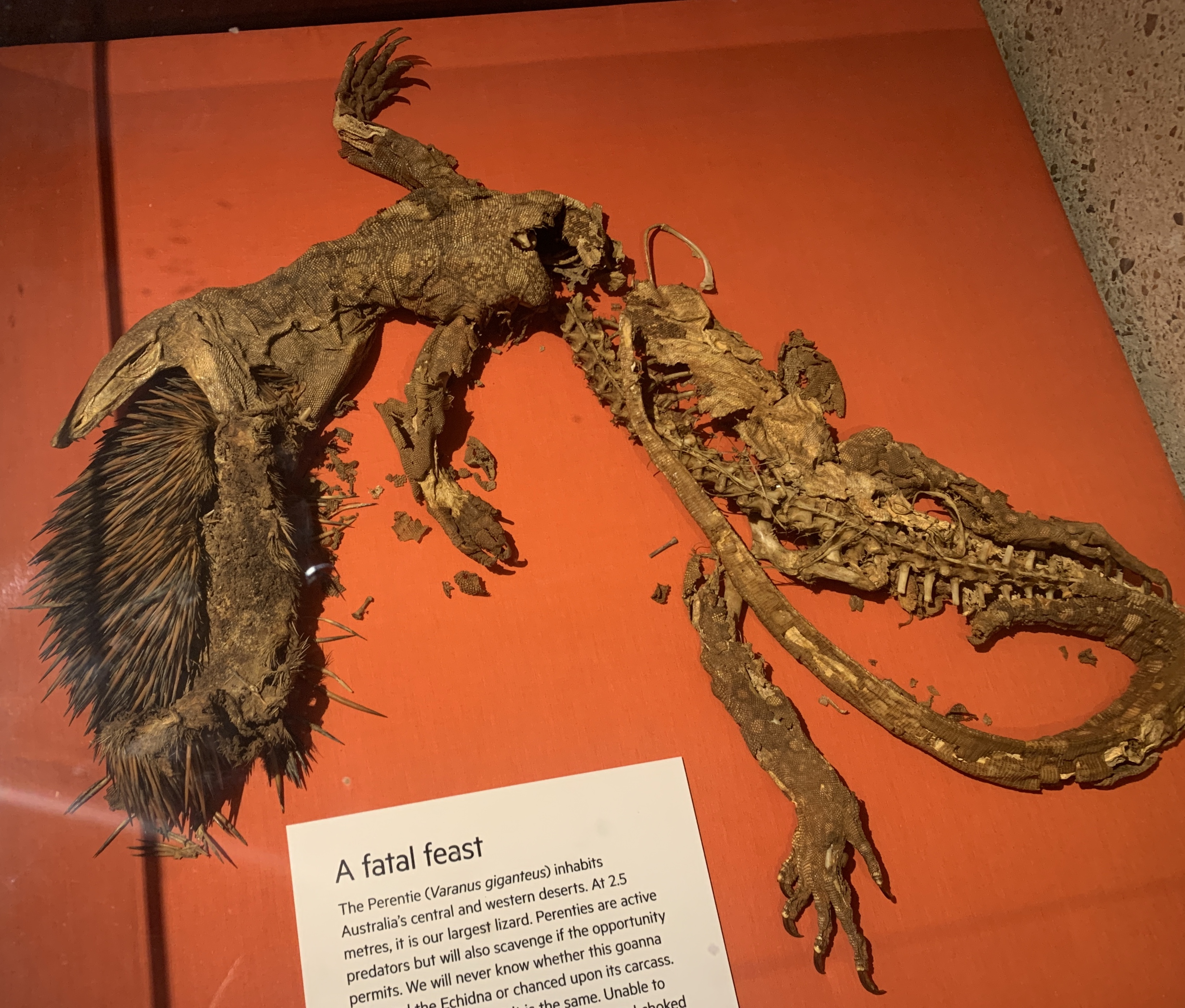 The placard reads the following. "A fatal feast: The Perentie (Varanus giganteus) inhabits Australia's central and western deserts. At 2.5 metres, it is our largest lizard. Perenties are active predators but will also scavenge if the opportunity permits. We will never know if this goanna captured the Echidna or chanced upon its carcass. Either way, the end result is the same. Unable to swallow or disgorge, this unfortunate lizard choked on its spiny meal. Locked together, predator and prey died, then mummified under the desert sun. This curious exhibit was acquired and displayed by the Queensland Museum prior to 1912."